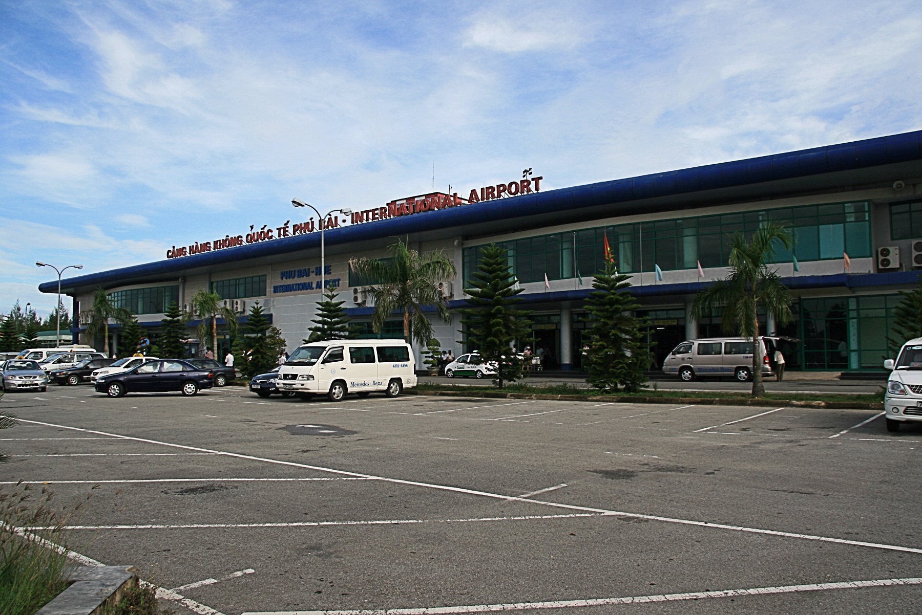 Phu Bai Airport in Hue, Vietnam Sân bay Quốc tế Phú Bài, Huế, Việt Nam